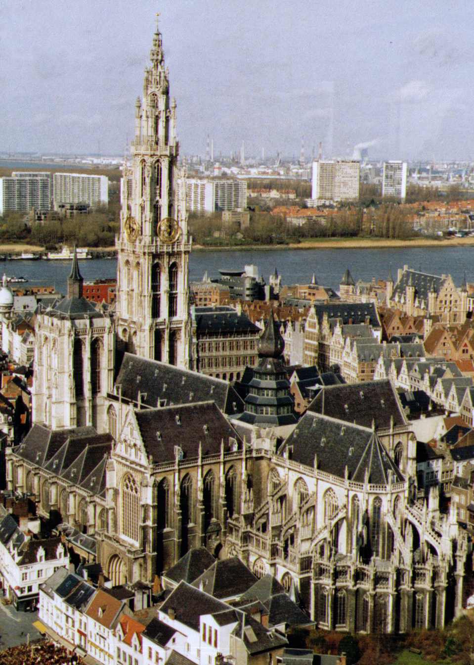 Our Lady's Cathedral, Antwerp, as seen from KBC-tower. The Cathedral of Our Lady (Dutch: Onze-Lieve-Vrouwekathedraal ten Hemel Opgenomen) is a Roman Catholic parish church in Antwerp, Belgium. The today's see of the Diocese of Antwerp was started in 1352 and, although the first stage of construction was ended in 1521, has never been 'completed'. In Gothic style, its architects were Jan and Pieter Appelmans. It contains a number of significant works by the Baroque painter Peter Paul Rubens, as well as paintings by artists such as Otto van Veen, Jacob de Backer and Marten de Vos. The photograph was taken from the observation deck of the KBC tower (also known as Boerentoren). The KBC-tower was the first skyscraper in Europe and was built during the early thirties.